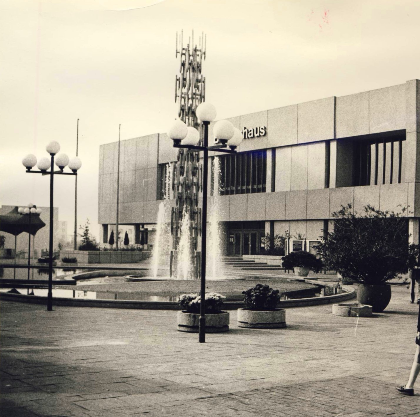 Frankfurt, Nord-West-Zentrum, public house with public art by Goepfert-Hölzinger